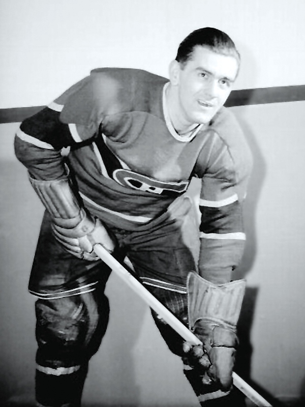 Maurice Richard, hockey player for the Montreal Canadiens